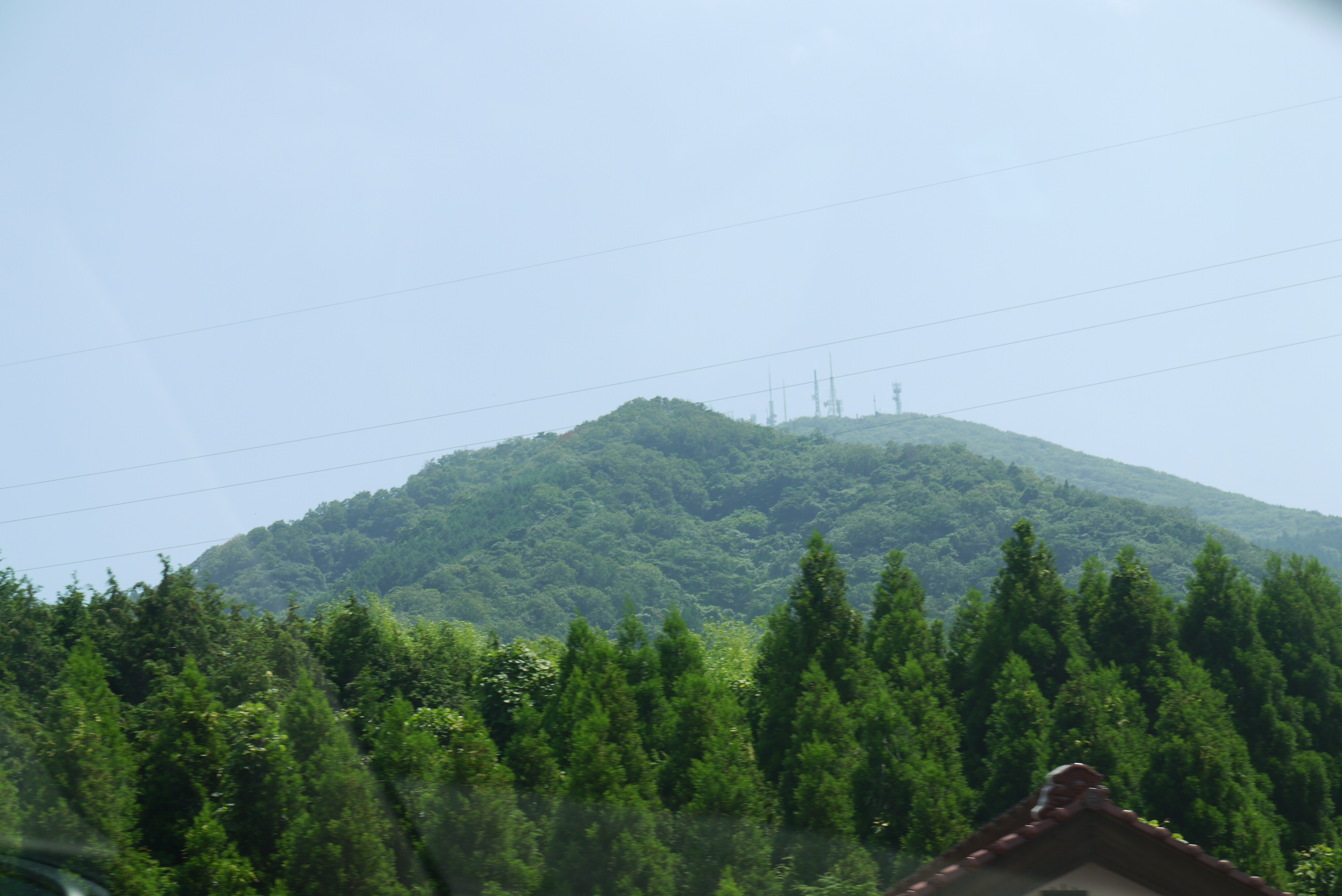 Mount Taima (Taimasan) in Hamada City, Shimane Prefecture, Japan